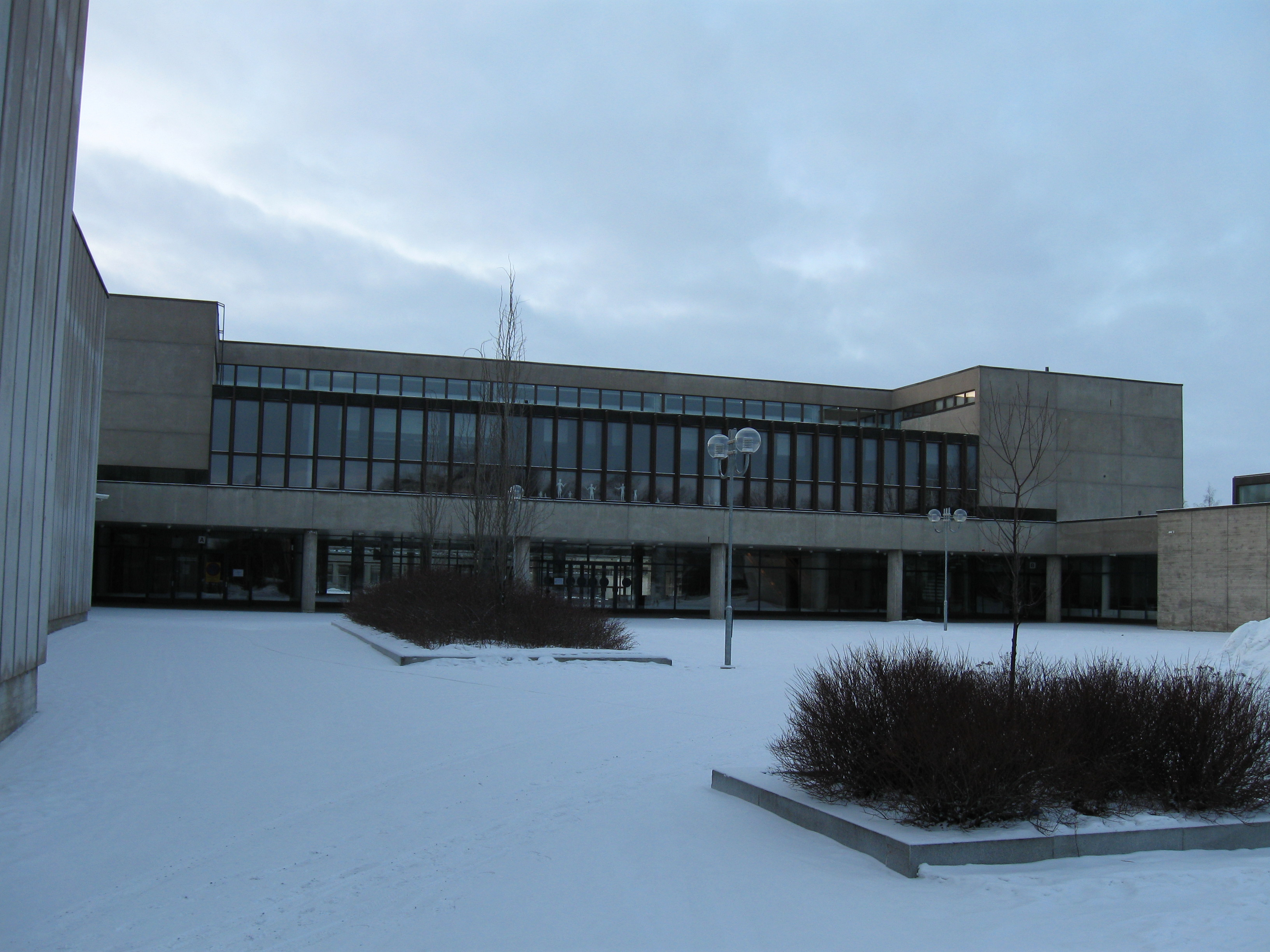 The Pohjankartano school and library building in Oulu, Finland.